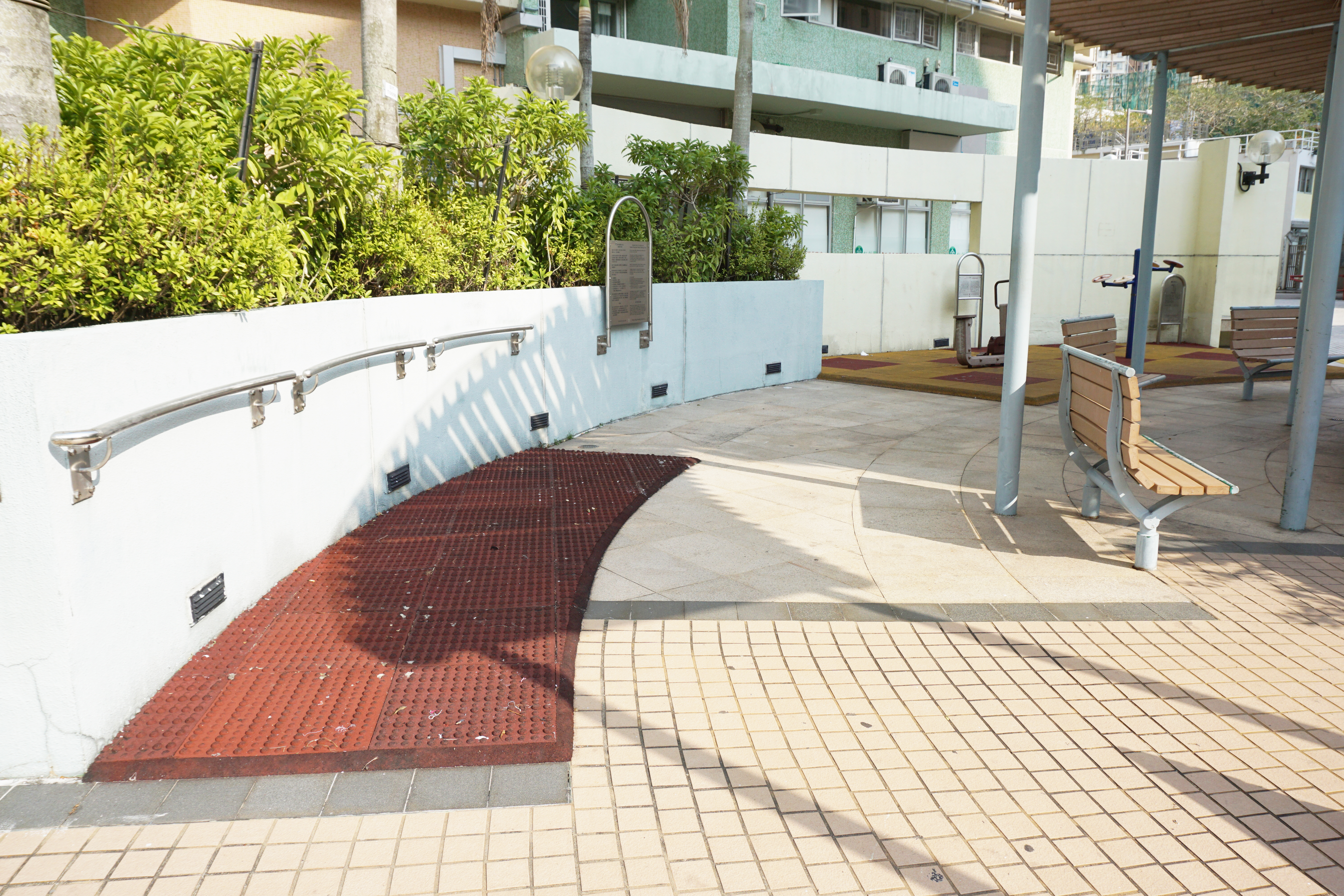 Shek Yam Estate in Shek Yam, Hong Kong.